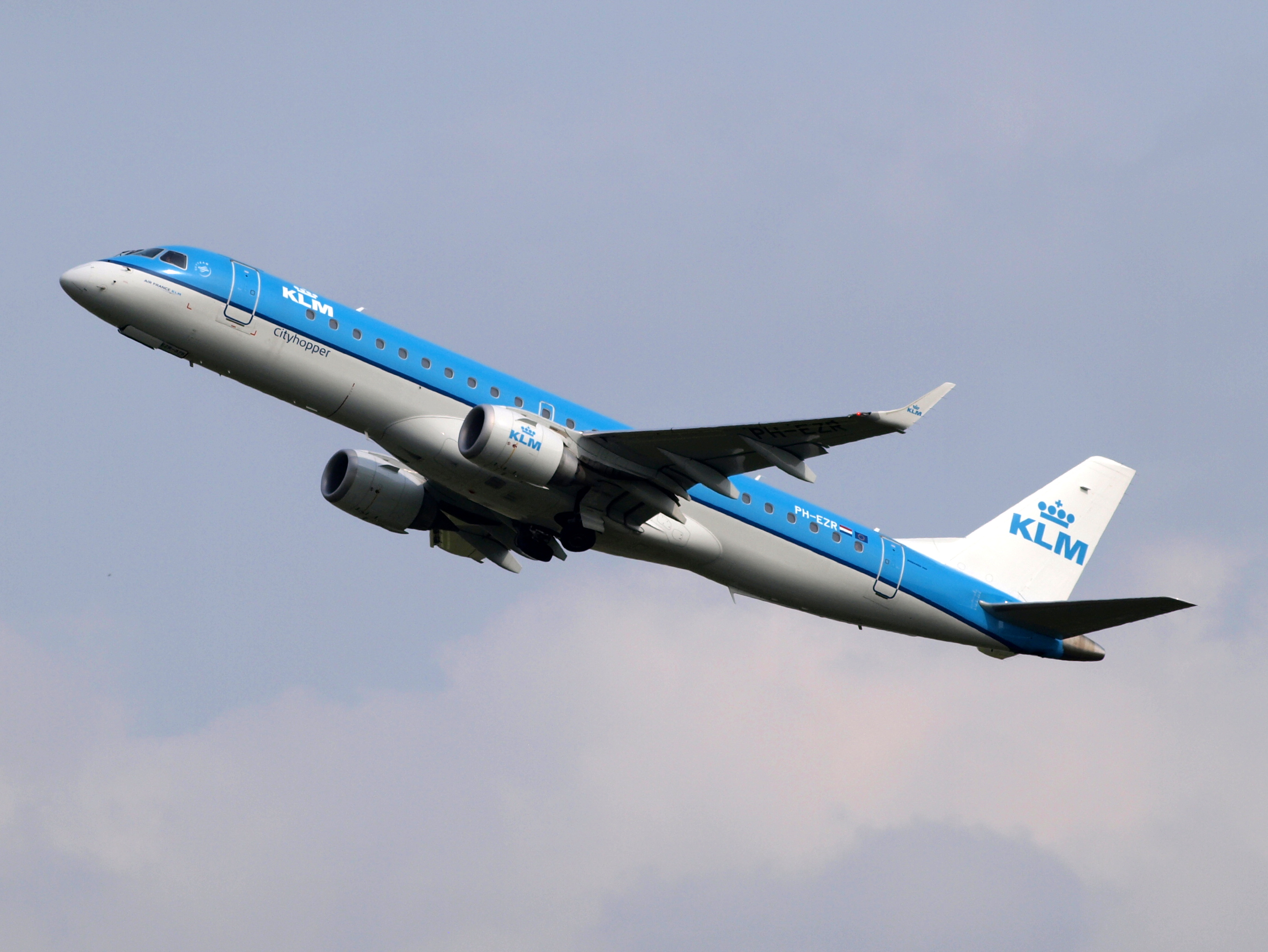 Photographed at Schiphol, Amsterdam airport, (IATA: AMS, ICAO: EHAM), the Netherlands.